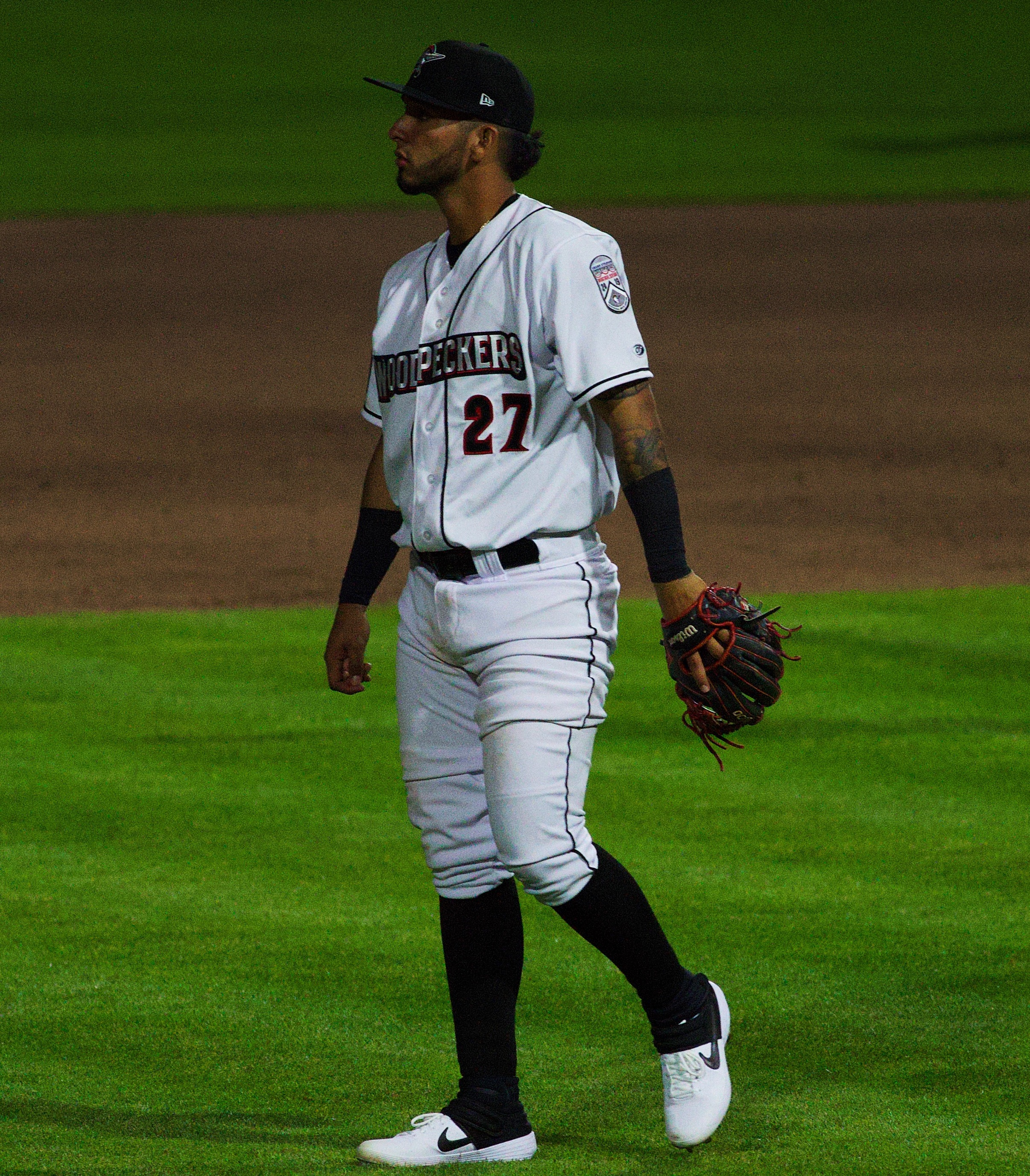 Baseball--Home Opener @ SEGRA Stadium, Fayetteville North Carolina